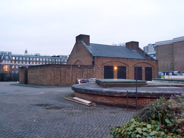 Shaft and pump house, London Water Ring Main. Actually on a spur off the ring, at first at the end of it, but it was later extended eastwards.